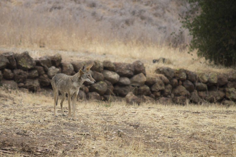 This Coyote was spotted at Rancho Sierra Vista by Ranger Jen.